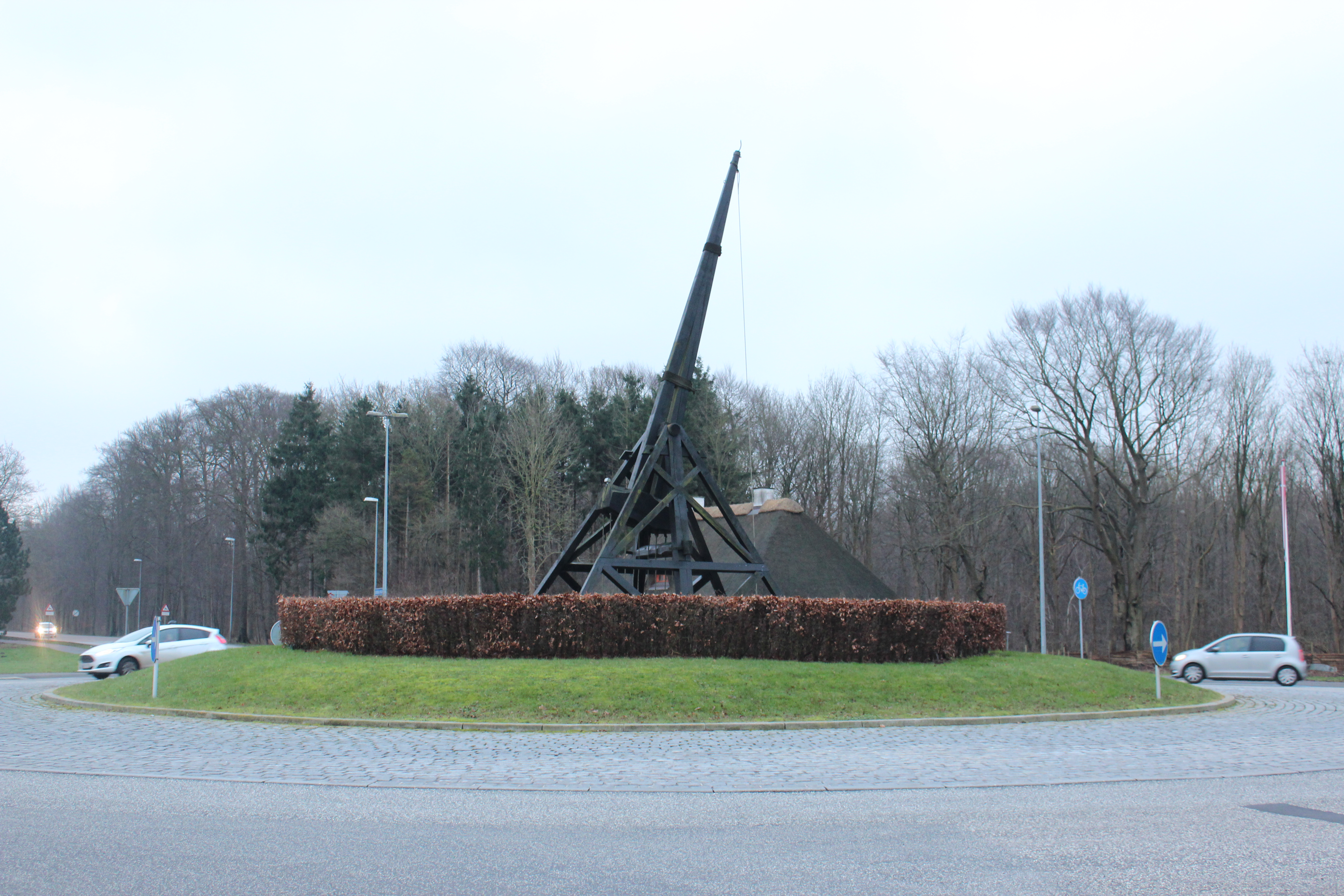 Trebuchet build of Middelaldercentret. Placed in a roundabout in Nykøbing Falster